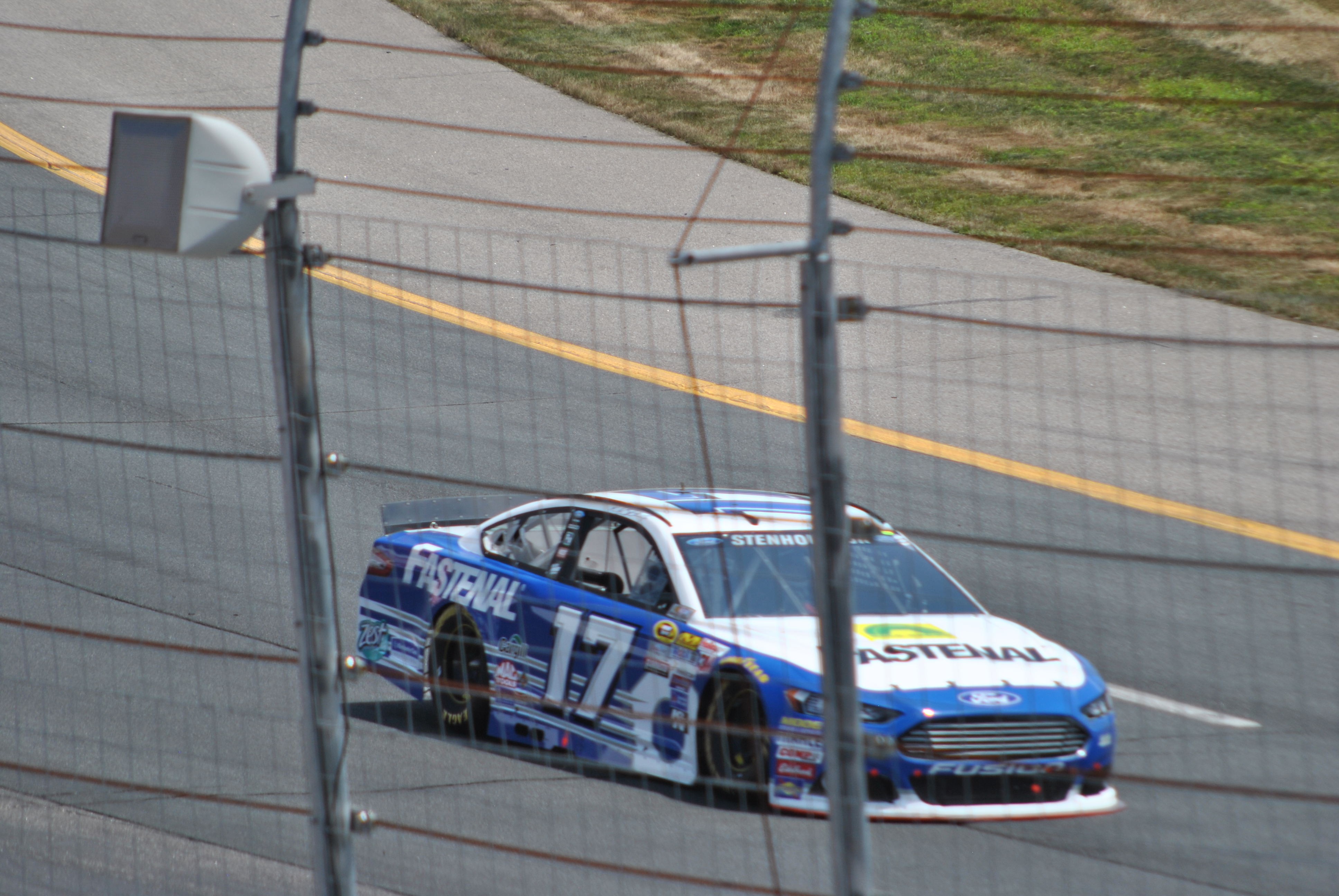 Ricky Stenhouse Jr.